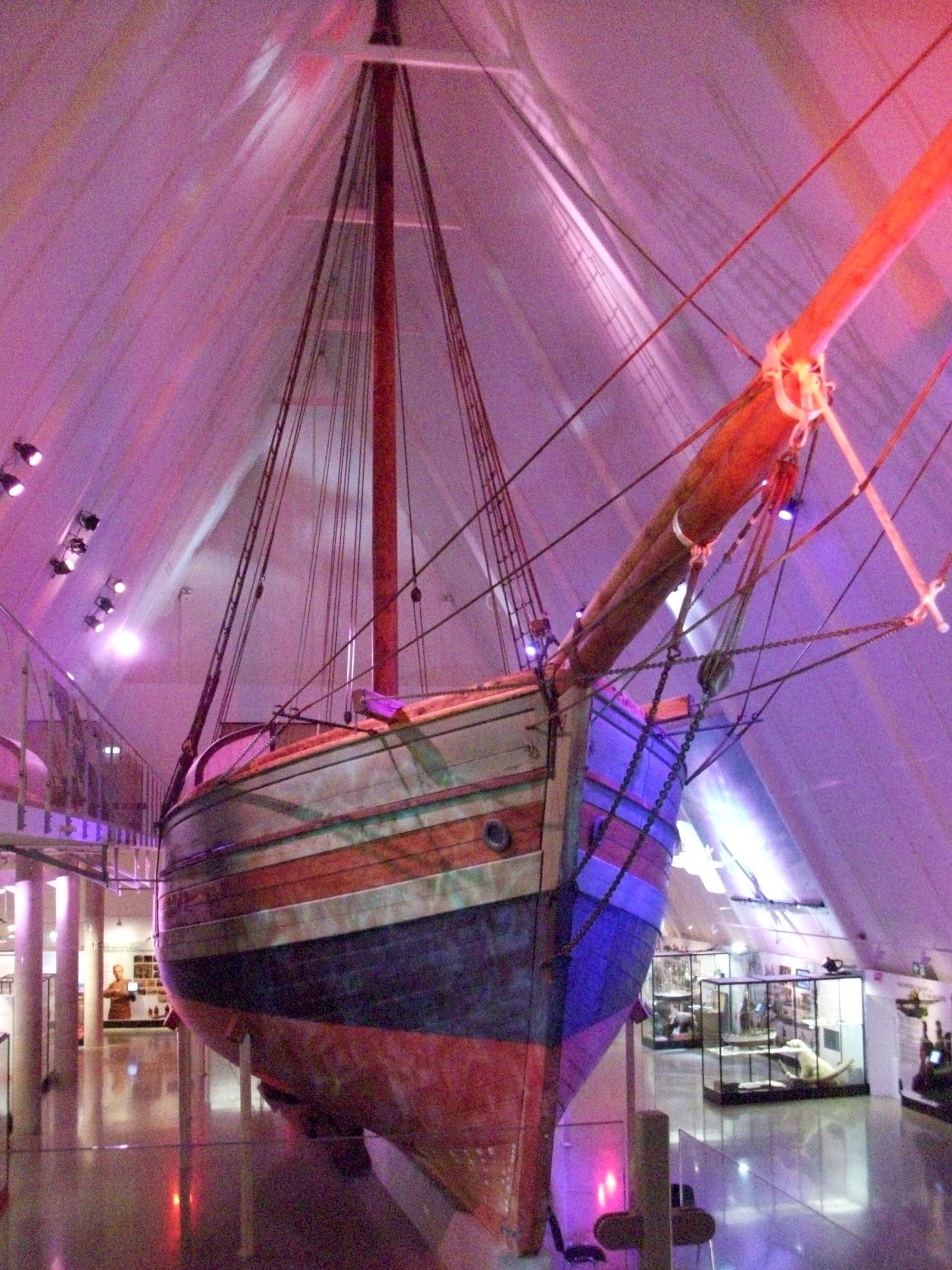 "In May 2009 the Norwegian Maritime Museum and the Fram Museum signed an agreement for the Fram Museum to take over the exhibition of the Gjøa. Roald Amundsen and a crew of six traversed the Northwest Passage aboard the Gjøa in a three year journey which was finished in 1906." (From Wikipedia) Fram Polar Exploration Museum - Oslo, Norway.